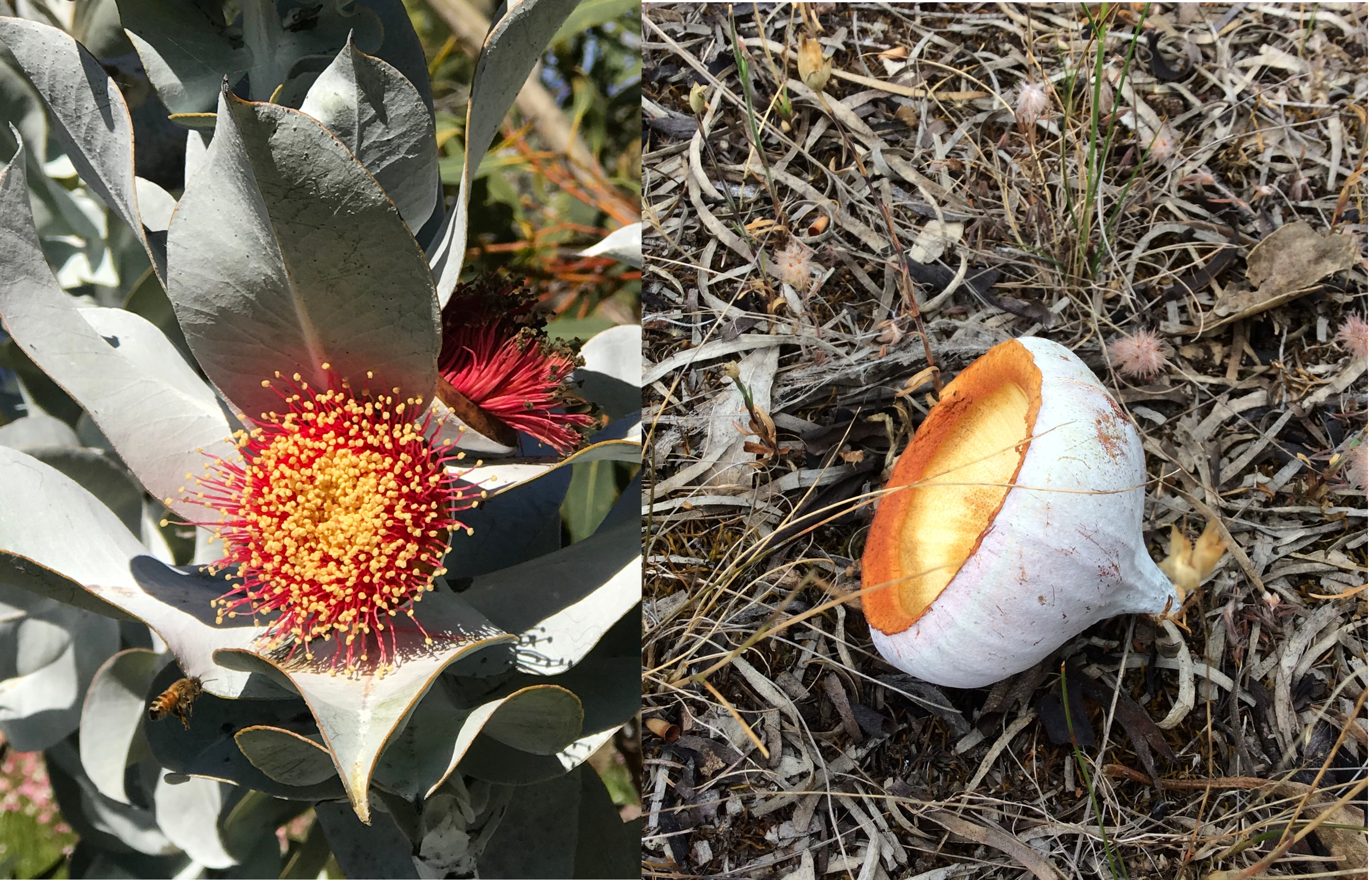 To illustrate the relationship between the flower and the operculum, I combined the files: File:Kings Park Perth Western Australia E. macrocarpa.jpg And File:Eucalyptus macrocarpa operculum Stirling Range Retreat.jpg